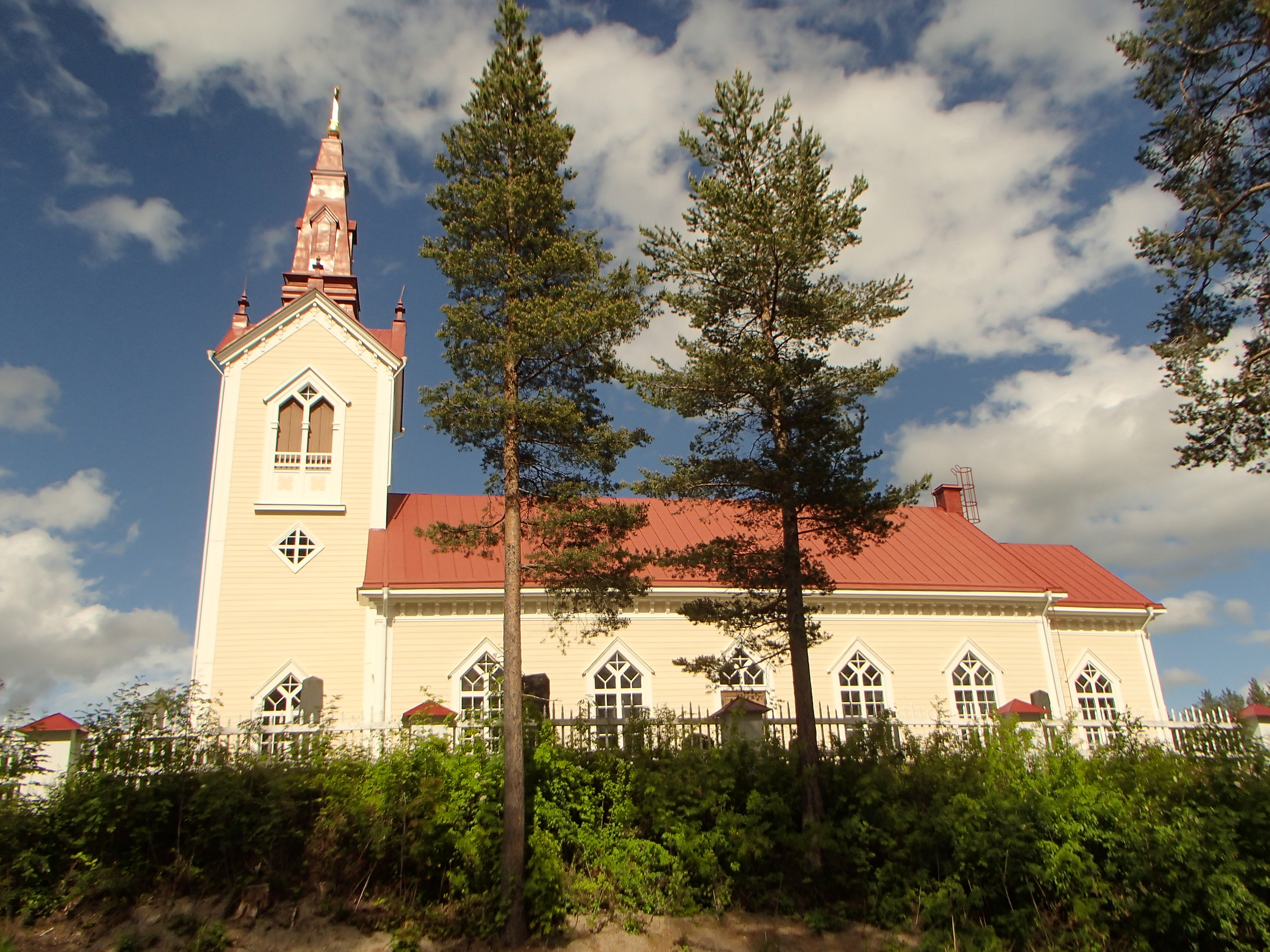 The church building of "Bräcke kyrka" in Bräcke, Bräcke Municipality